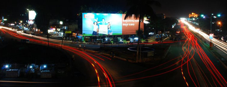 Taken from above Jaydev Vihar Flyover, on the National Highway NH5